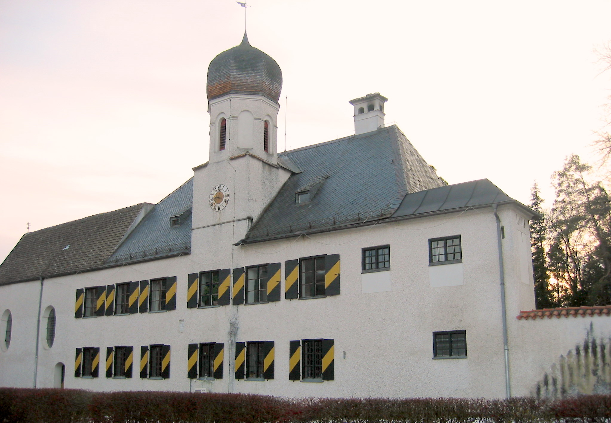 Mühlfeld Castle